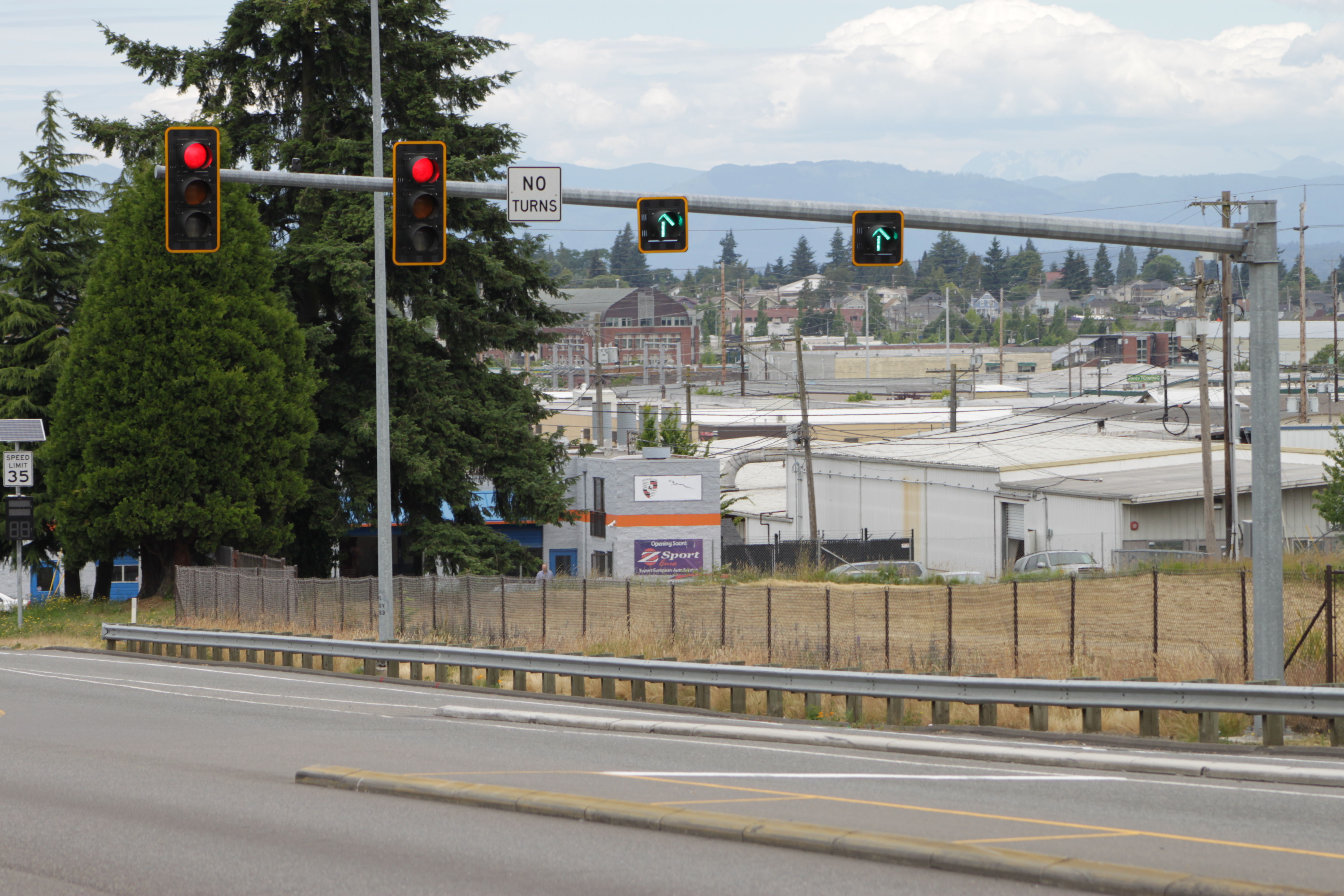 Seagull intersection and CGTL on Broadway in Everett, Washington, USA